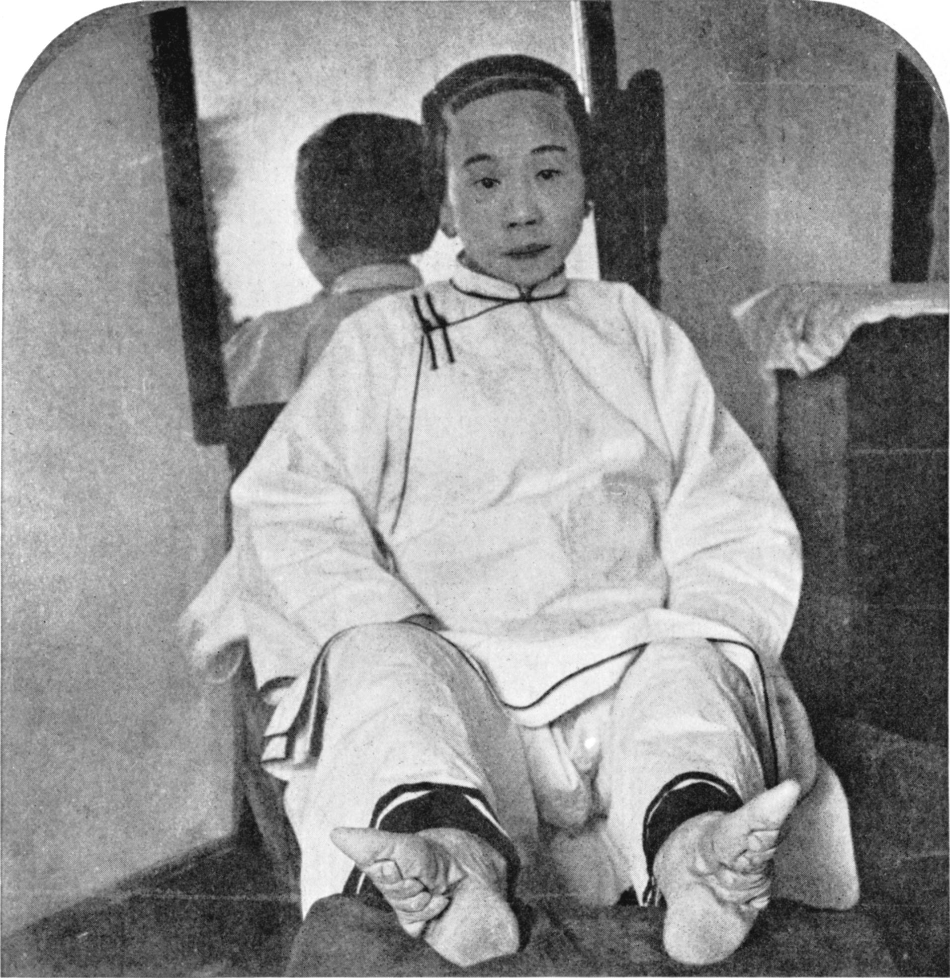 A HIGH CASTE LADY'S DAINTY "LILY FEET." Showing the deformation (the shoe is worn on the great toe only).